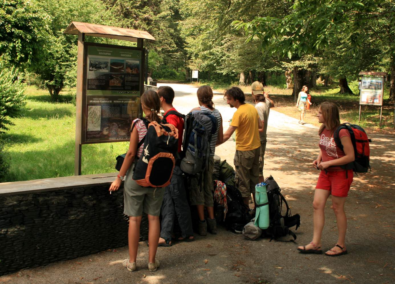 Lagodekhi National Park. Entrance